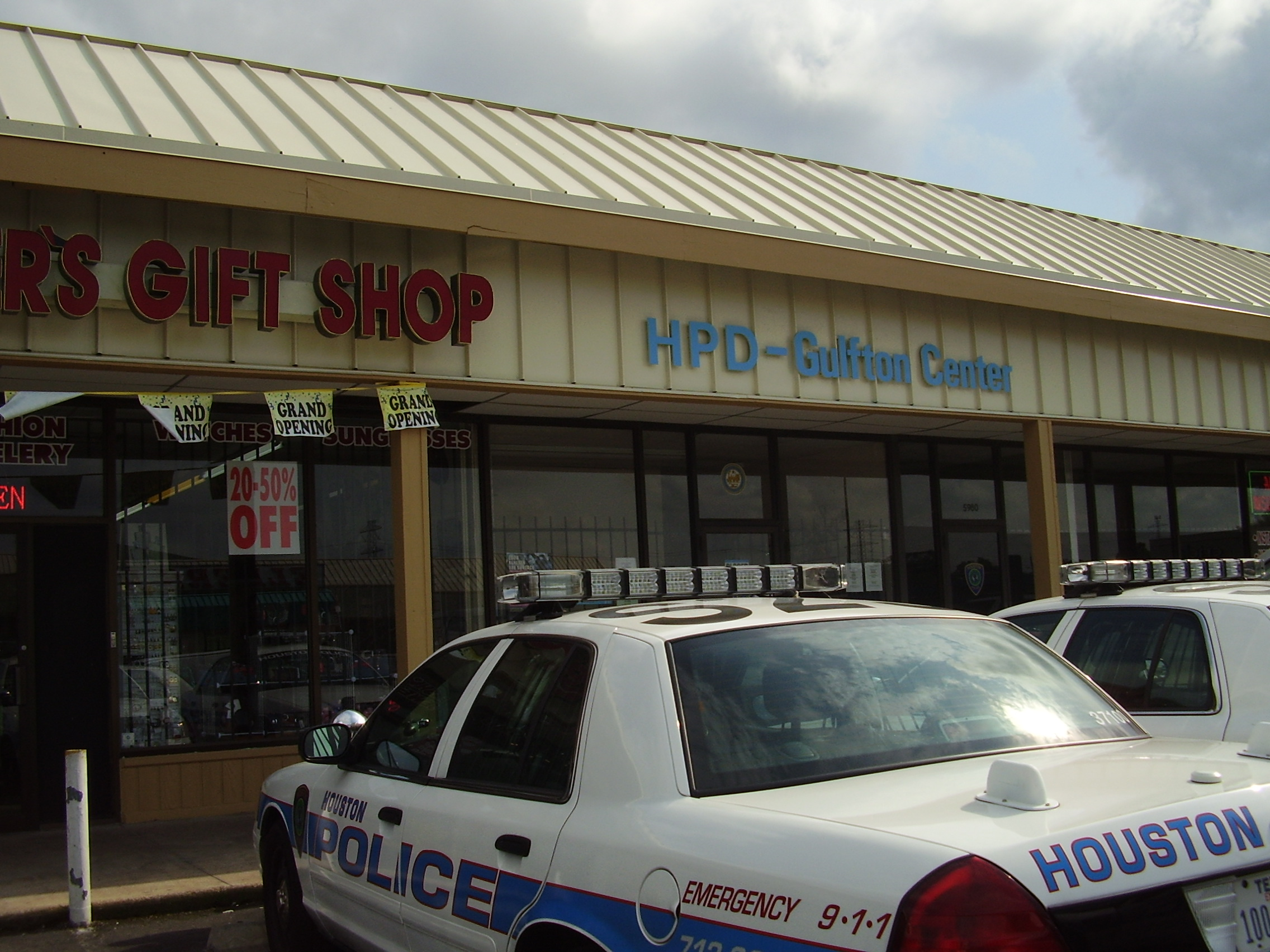 Former Houston Police Department Gulfton Storefront in the Orchard Green Shopping Center